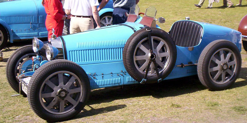 Bugatti Type 37A Sports 1929